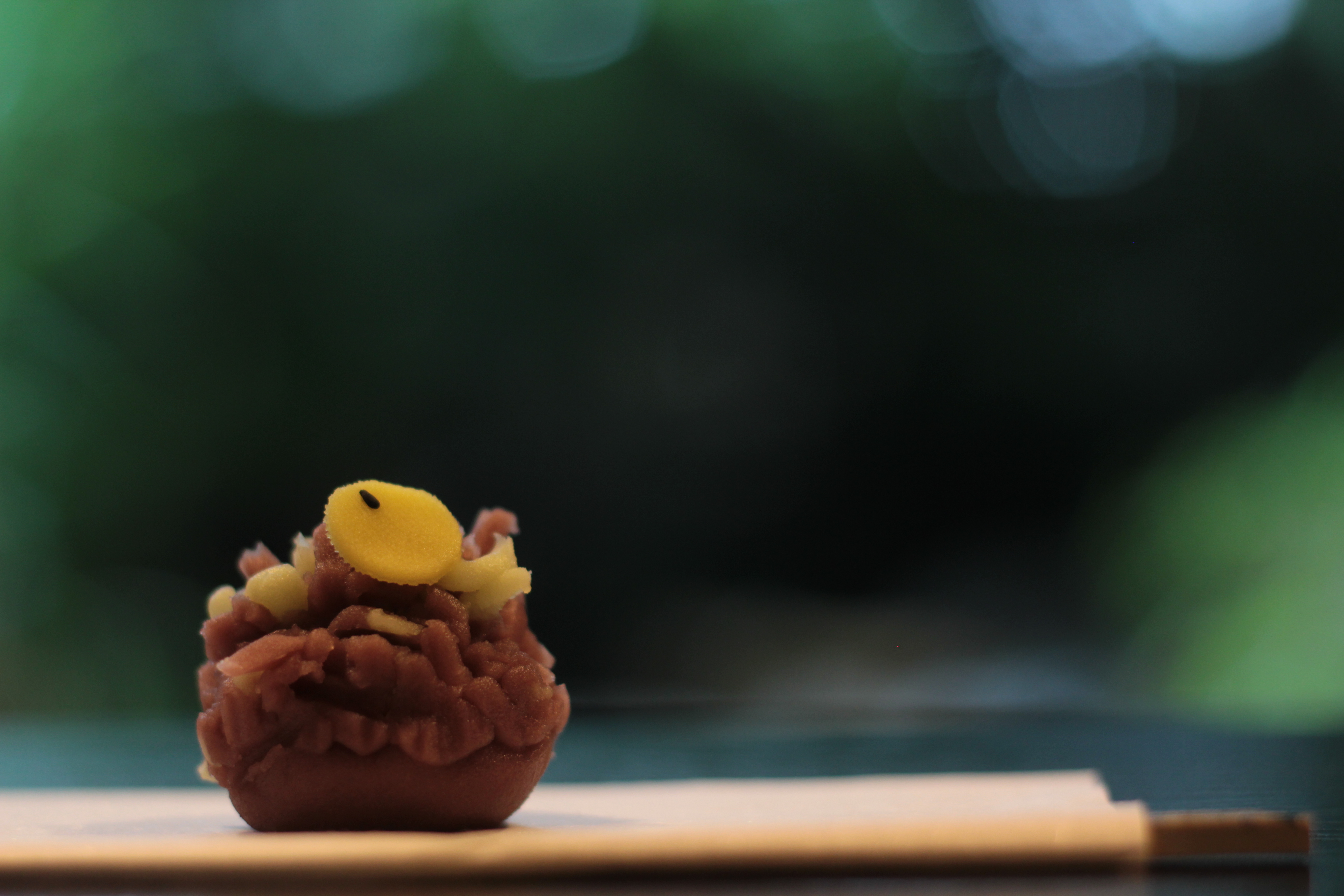 "Hotaru" type wagashi at a teahouse in Toyama.